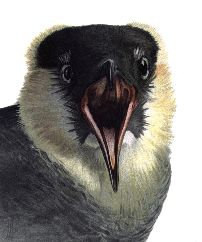 Pomarine Jaeger Stercorarius pomarinus, chromolithograph after painting (watercolor)